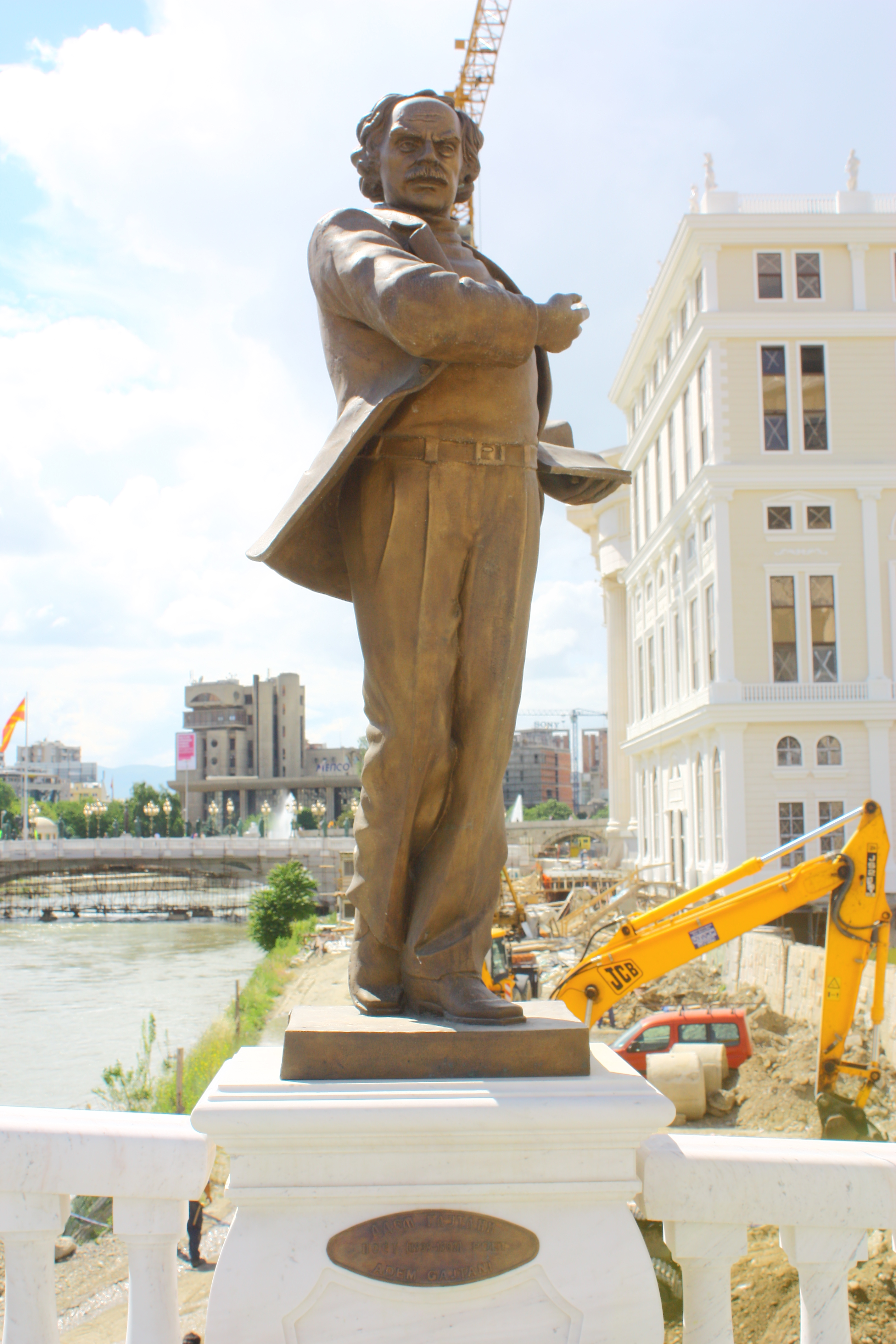 Statue of the poet Adem Gajtani the Bridge of Arts in Skopje, Macedonia This image is uploaded as part of the picture contest Wiki Loves Cultural Heritage in Macedonia 2013. English | македонски | +/−